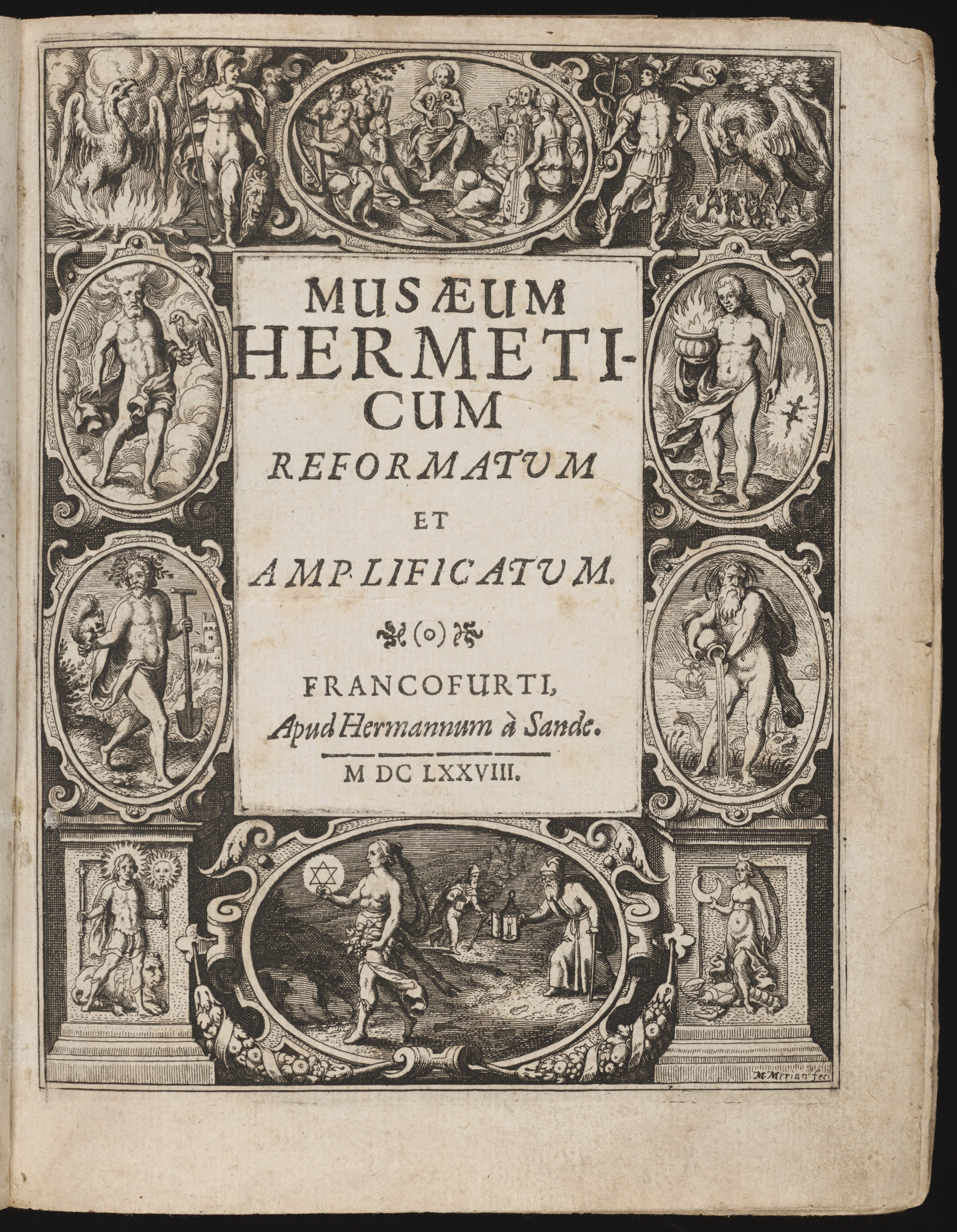 Musaeum hermeticum reformatum et amplificatum - title page